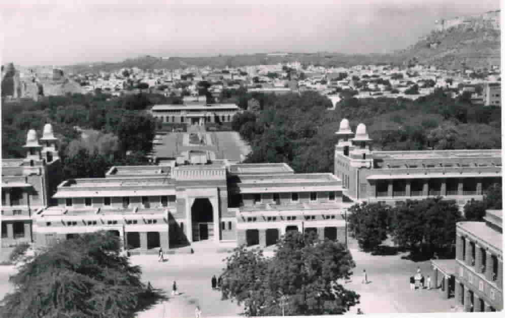 This picture is one of my own collections of Jodhpur 1960. JODMAR View of the Rajasthan High Court, Sardar museum in Umaid Park and upper right is Jodhpur fort. Taken from the roof top of collectorate in 1960.